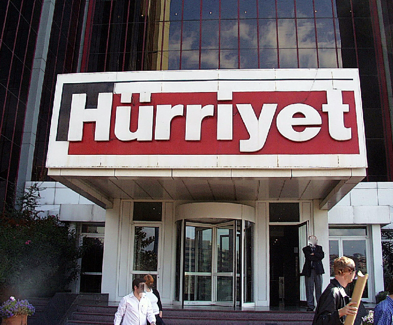 Hürriyet head office